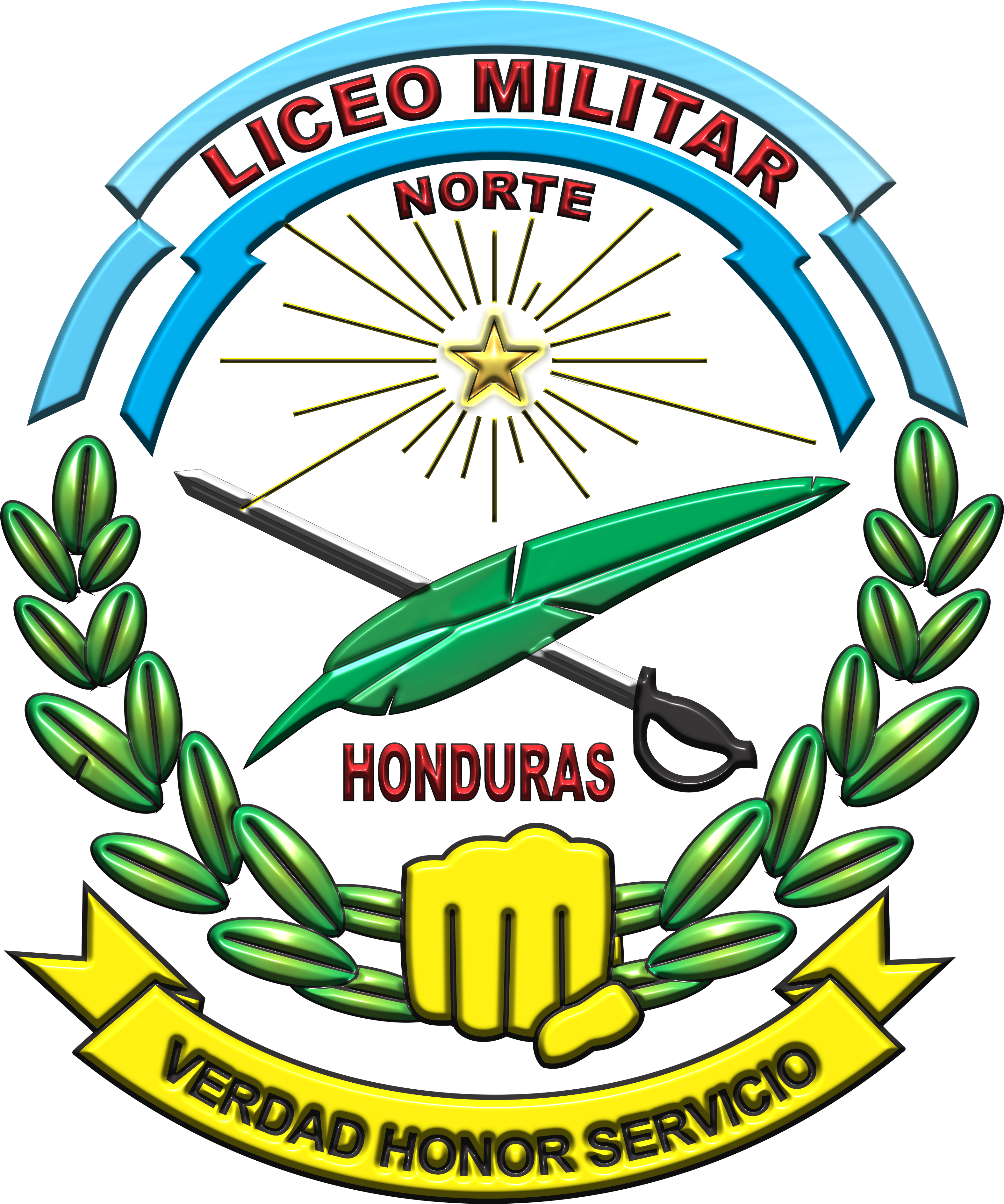 Created in 1983 by Col. Francisco Ruiz Andrade, the shield contains several symbols that are representative of the institution's values. The North Star, The Military Saber, The Academic Pen, The Laurel Leaves, and finally the school motto.